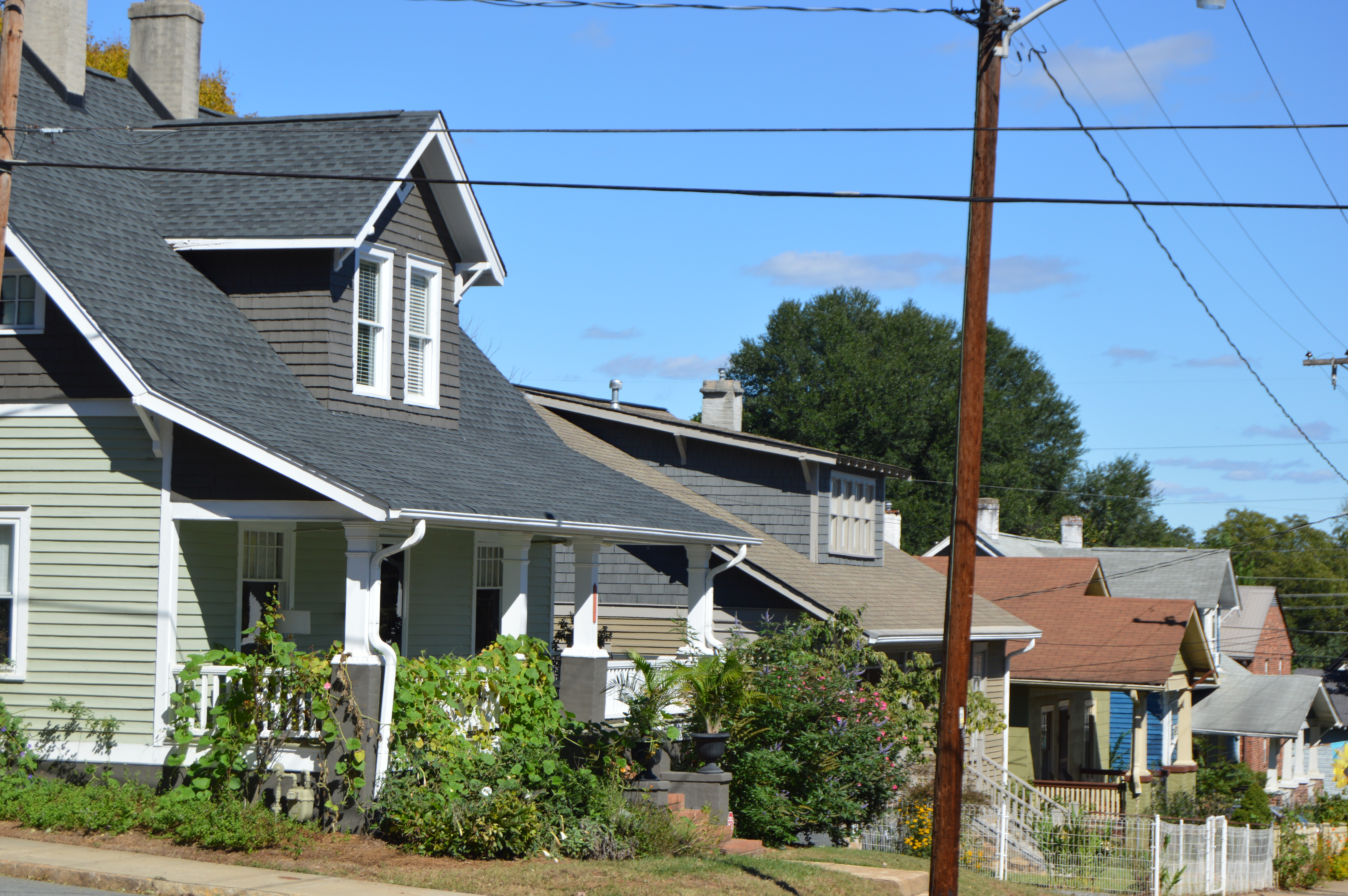 Houses on the northern side of West Street just east of the Laurel Street intersection in Winston-Salem, North Carolina, United States. This block is part of the West Salem Historic District, a historic district that is listed on the National Register of Historic Places.